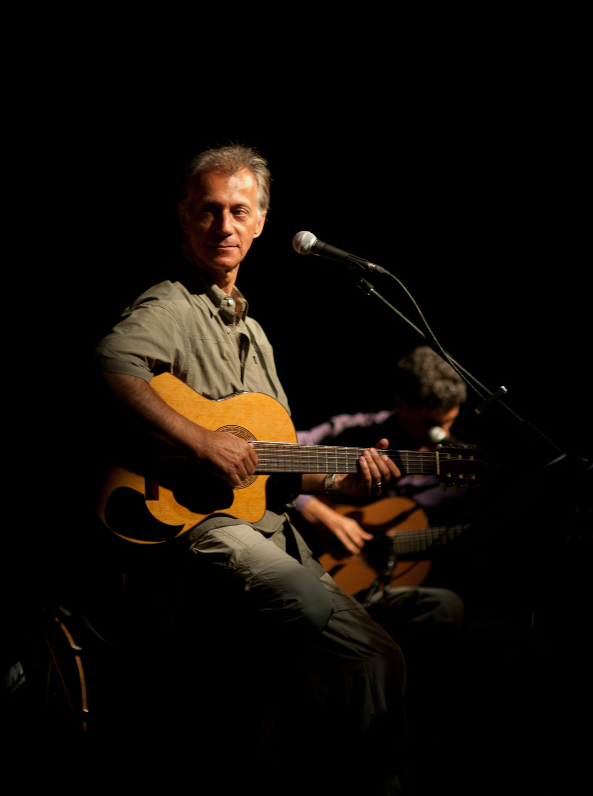 Matti Caspi in a concert at the Zappa club in Tel Aviv.